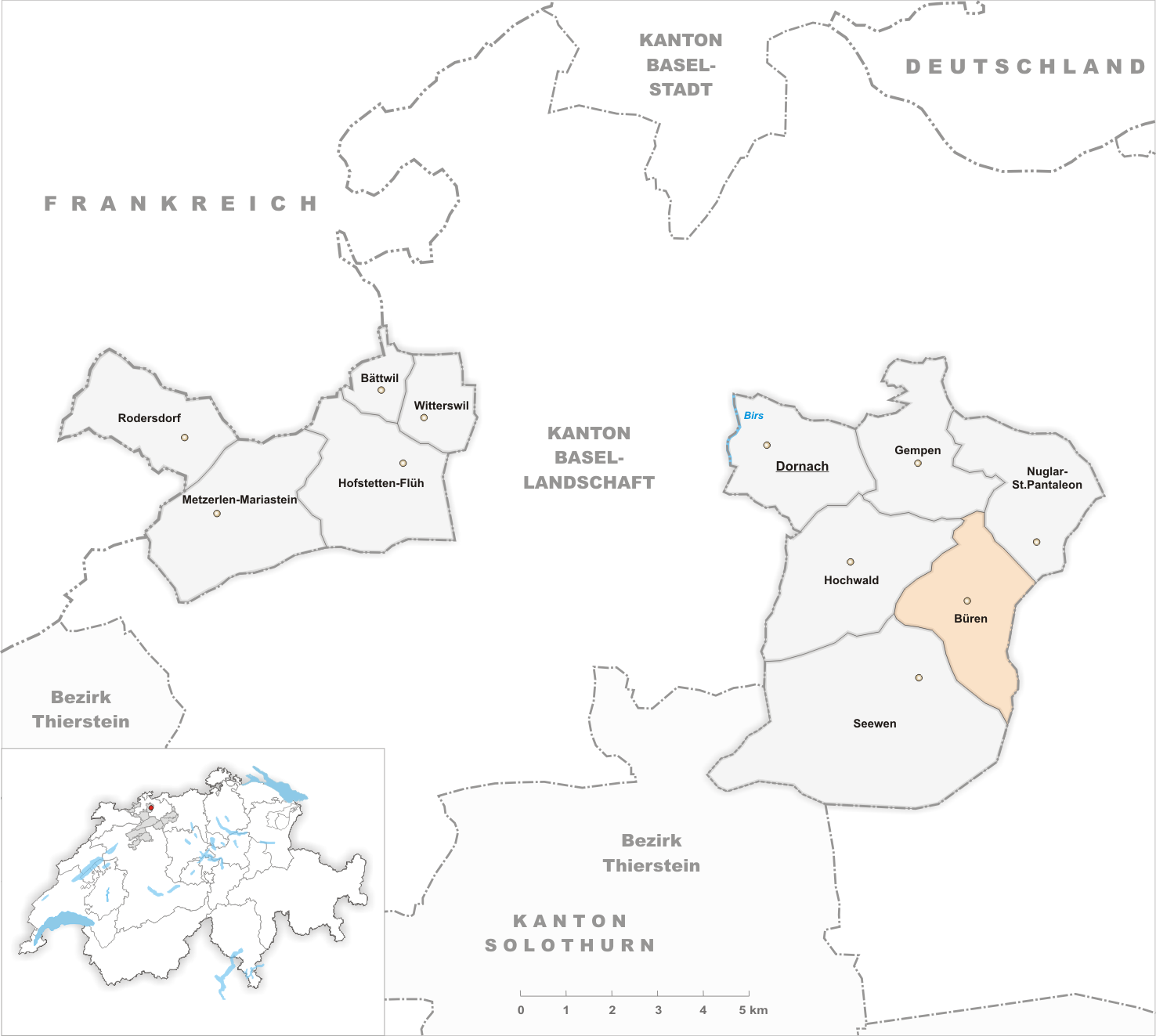 Municipality Büren